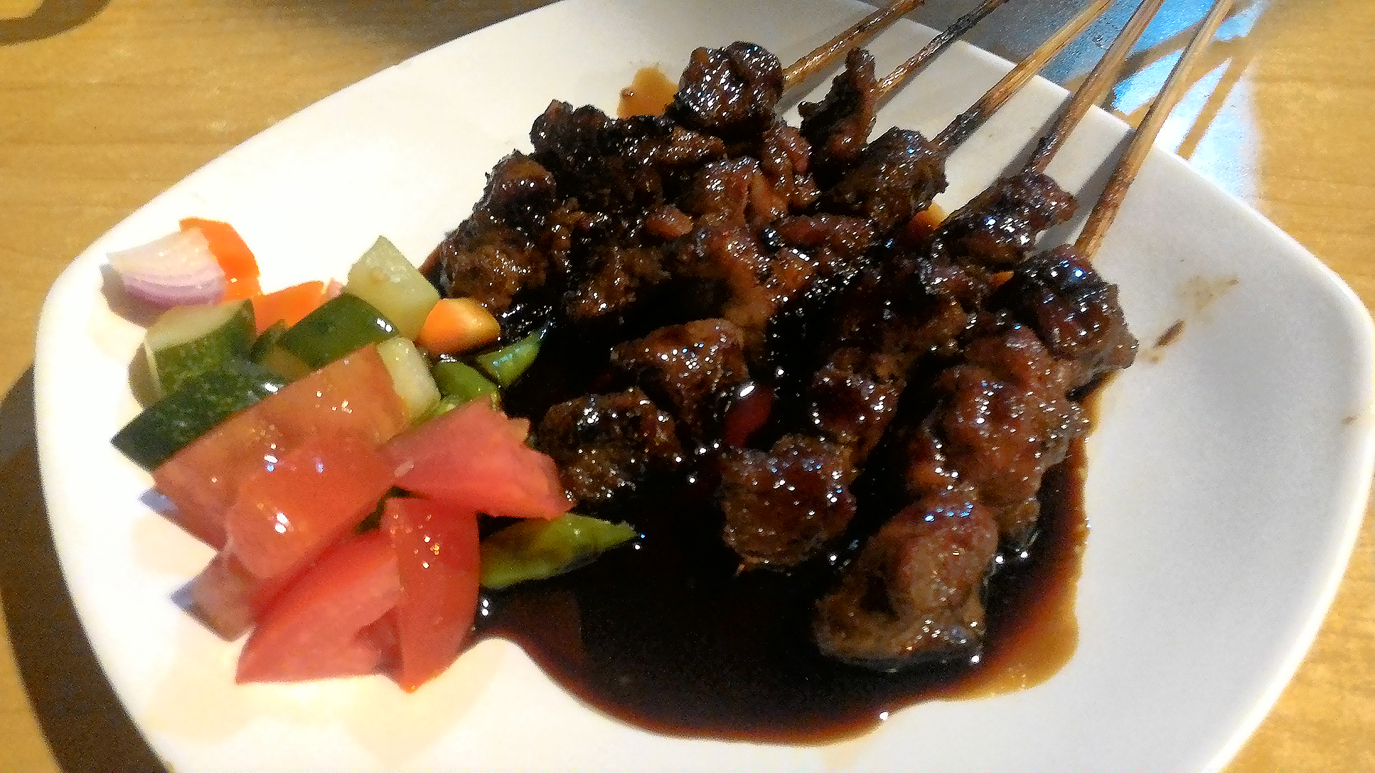 Sate Maranggi, beef satay in spicy sweet soy sauce and acar pickles, specialty of Purwakarta, West Java, Indonesia.